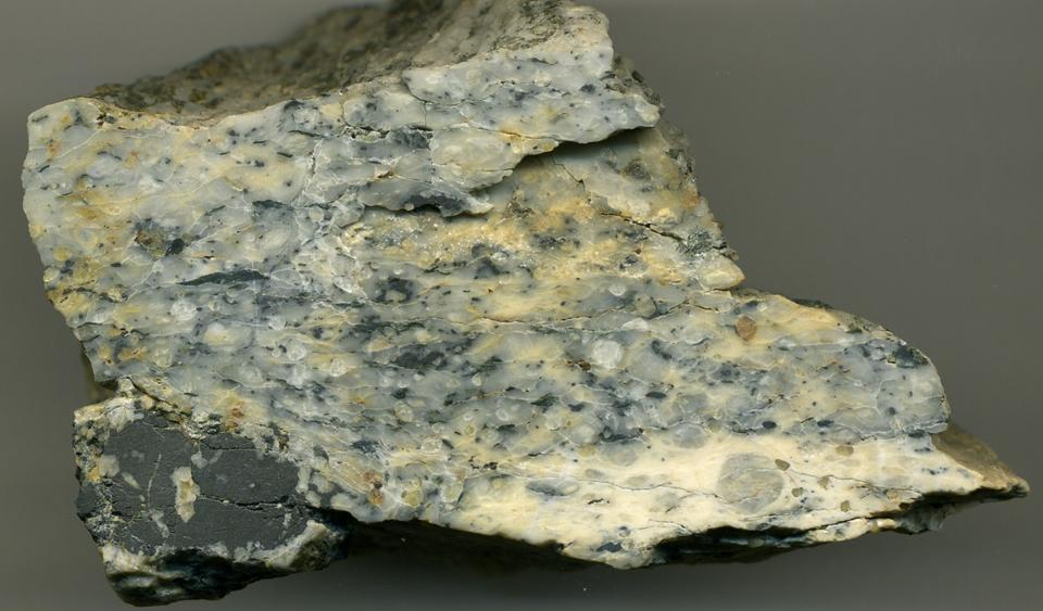 Magnesiocarbonatite from the Verity-Paradise Carbonatite Complex of British Columbia, Canada. This rock is 74 millimetres across at its widest.